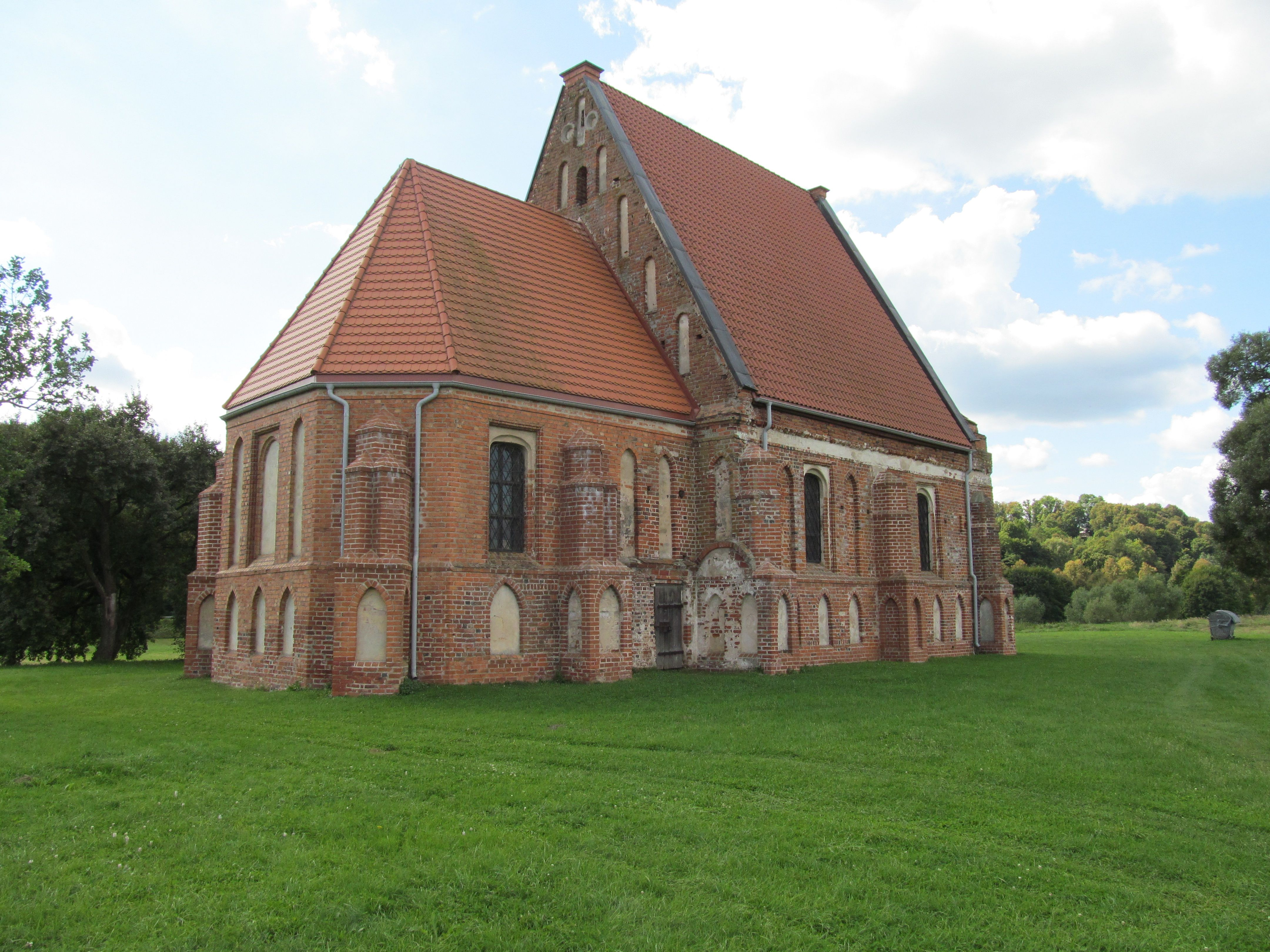 Zapyškis church, Lithuania. View from north-east.